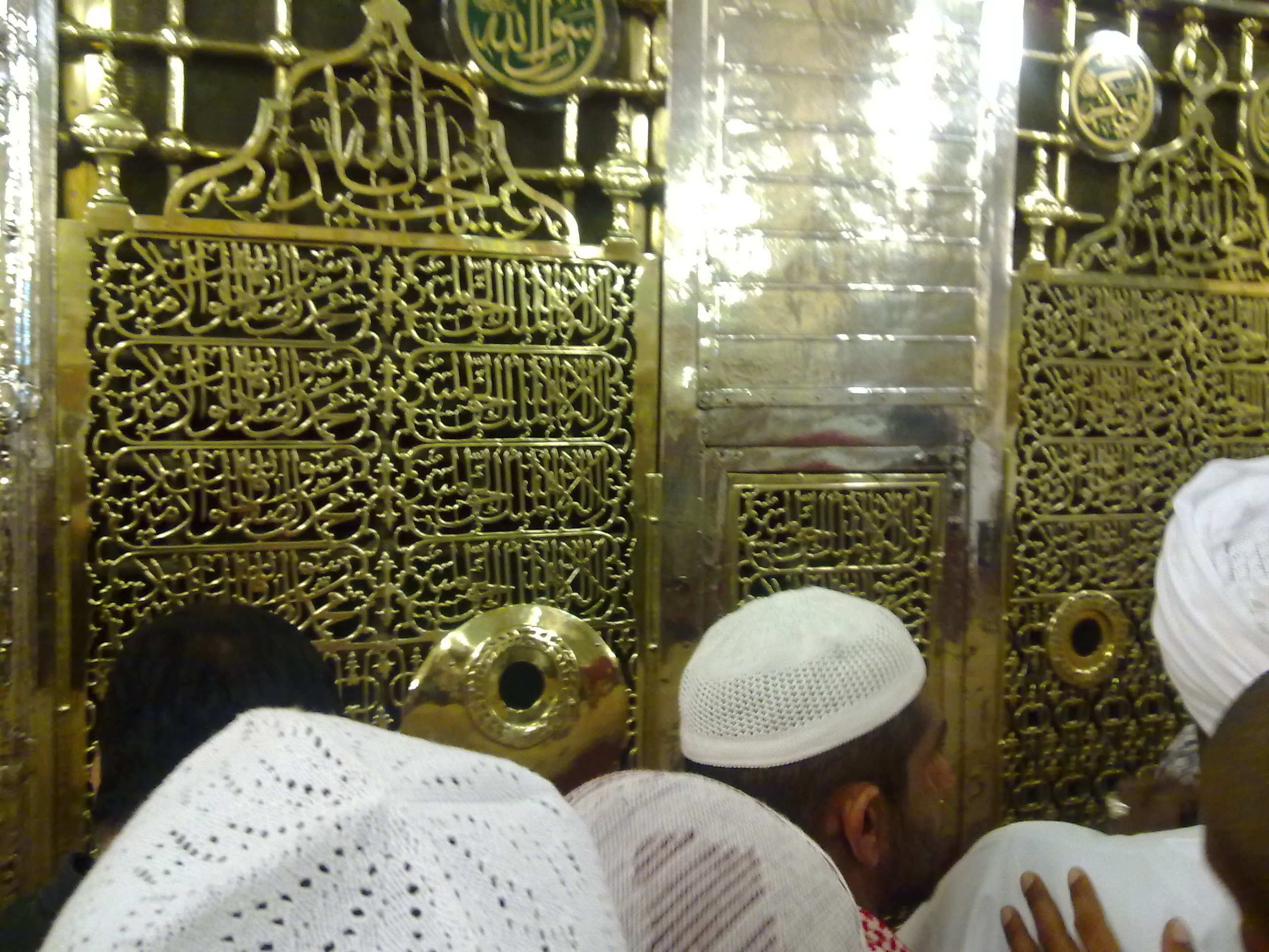 Tomb of the Prophet Mohammed is in the Mrs Aisha room.